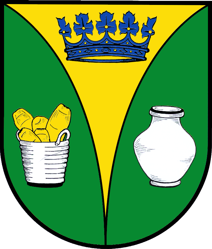 Coat of arms of the German municipality of Auderath